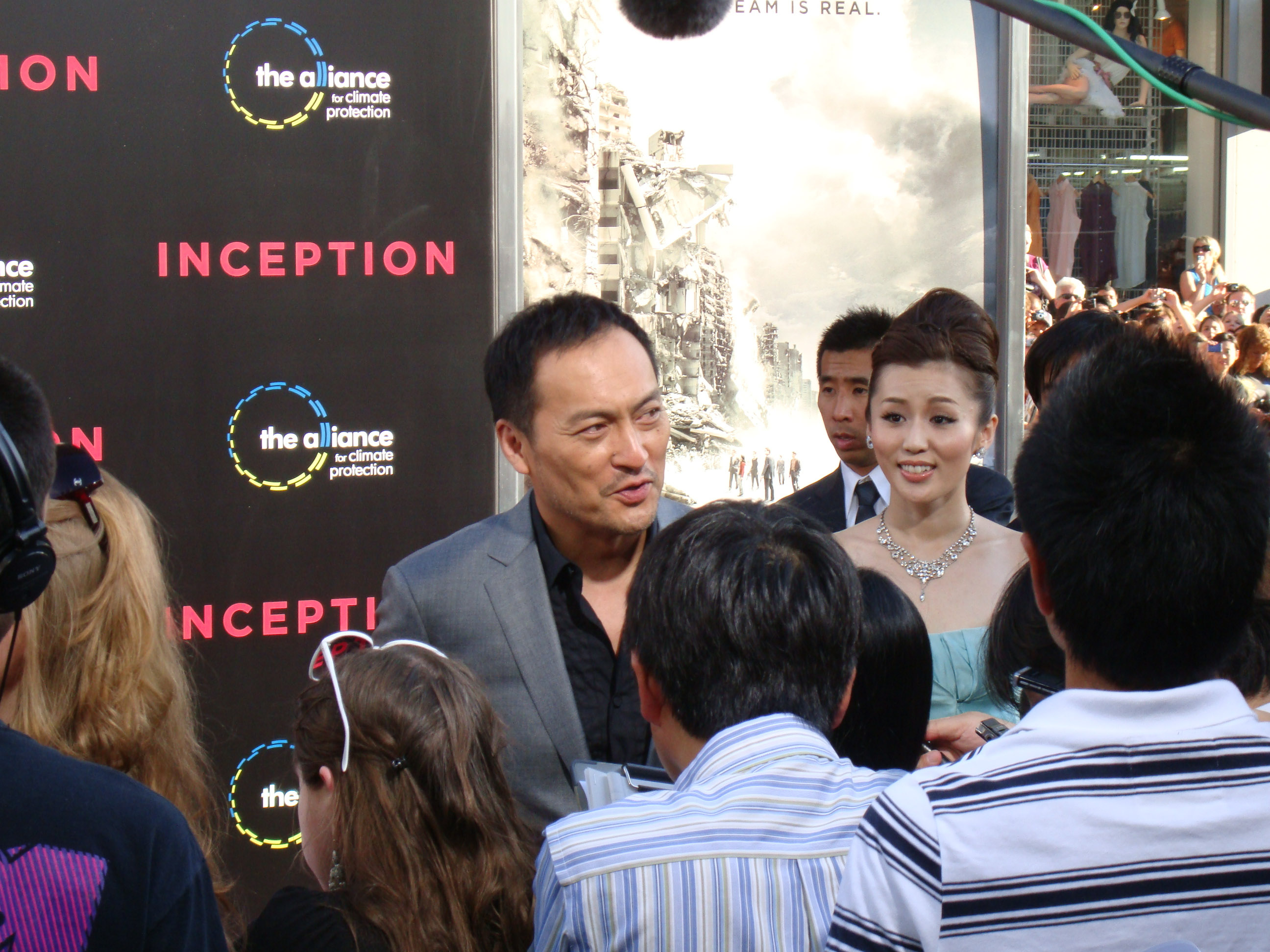 Ken Watanabe at the premier of Inception